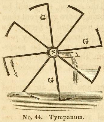 Tympanum diagram